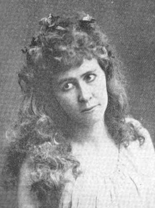 Tallulah “Lulah” Ragsdale (Brookhaven, Mississippi, 1862 - 1953), poet, novelist, actor